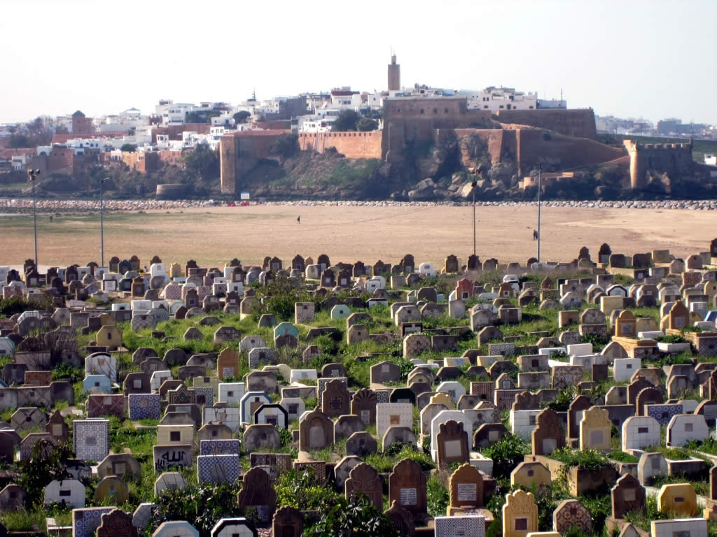 The Kasbah des Oudaiais at Rabat, Morocco, as seen from the vast Islamic cemetery in nearby Sale.